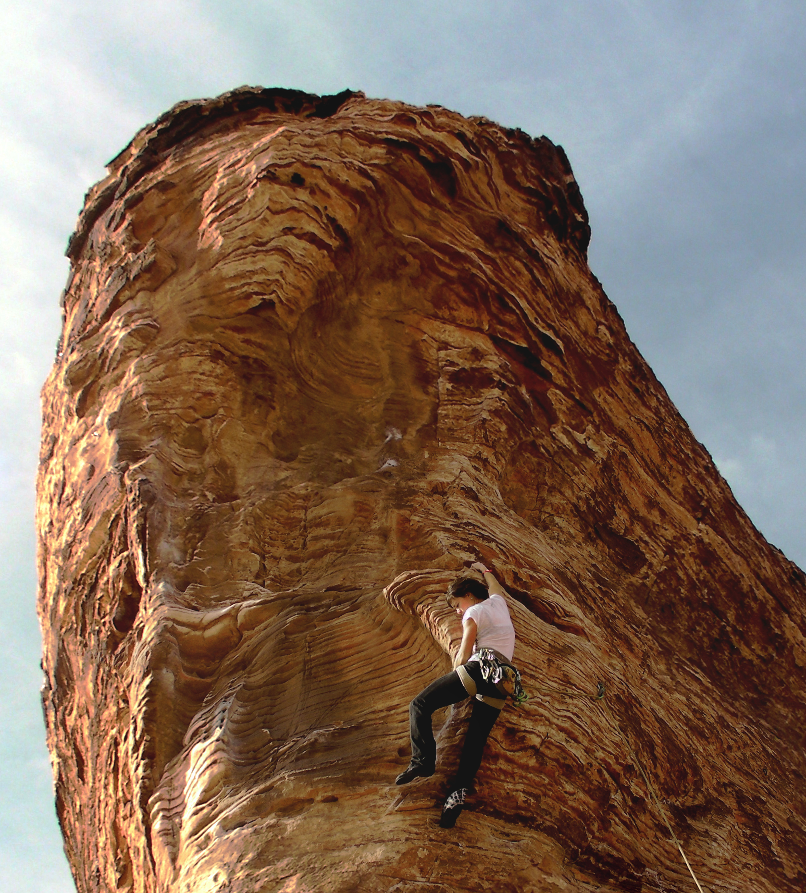 Katie Brown climbing at calico basin, red rocks